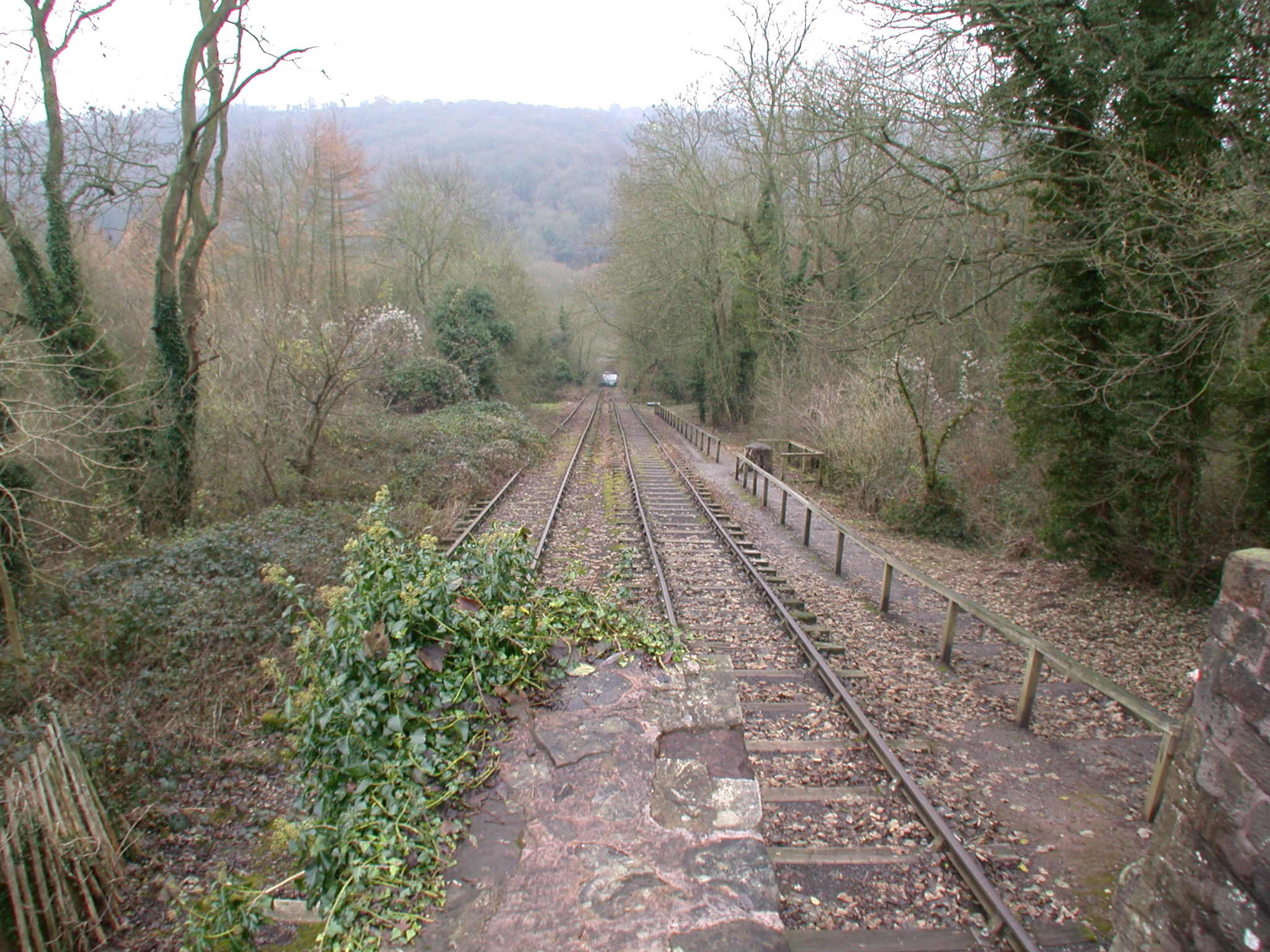 Hay's inclined plane, Ironbridge, United Kingdom. Photo: Riggwelter, Dec 2005